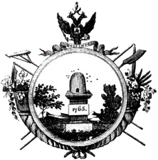 Coat of arms of Free Economic Society (Russia)